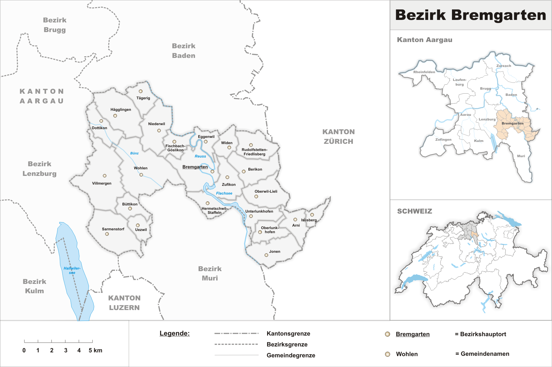 Municipalities in the district of Bremgarten to 2010